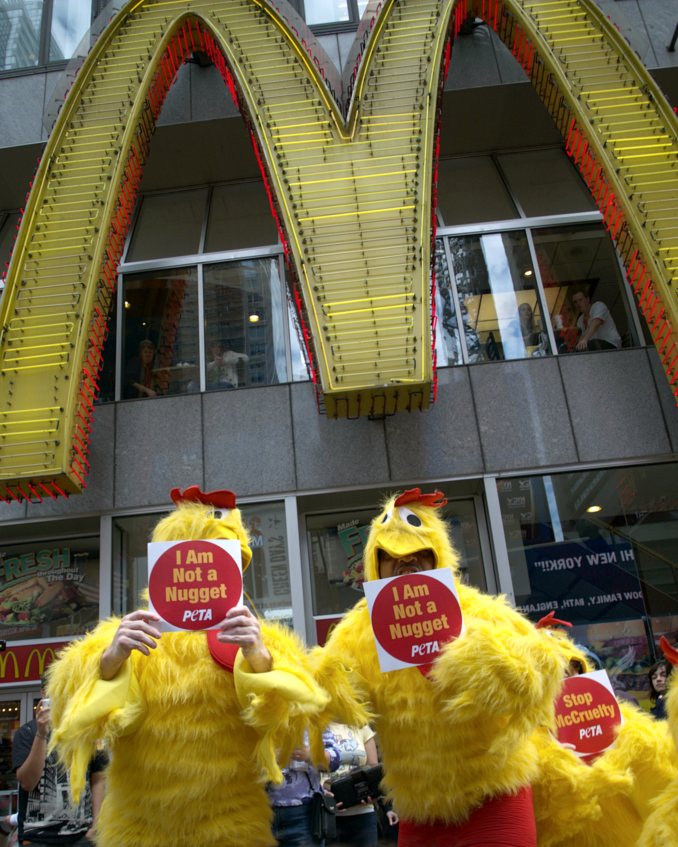 A troupe of little people in chicken suits flocked to McDonald's in Times Square brandishing signs declaring, "I Am Not a Nugget!"; The diminutive dancers from " Centerfold Strips—which bills itself as the number one source for midget and dwarf strippers—made their entrance in a pink stretch Mini Cooper and pounded the pavement in a choreographed musical protest against McDonald's slaughter practices.